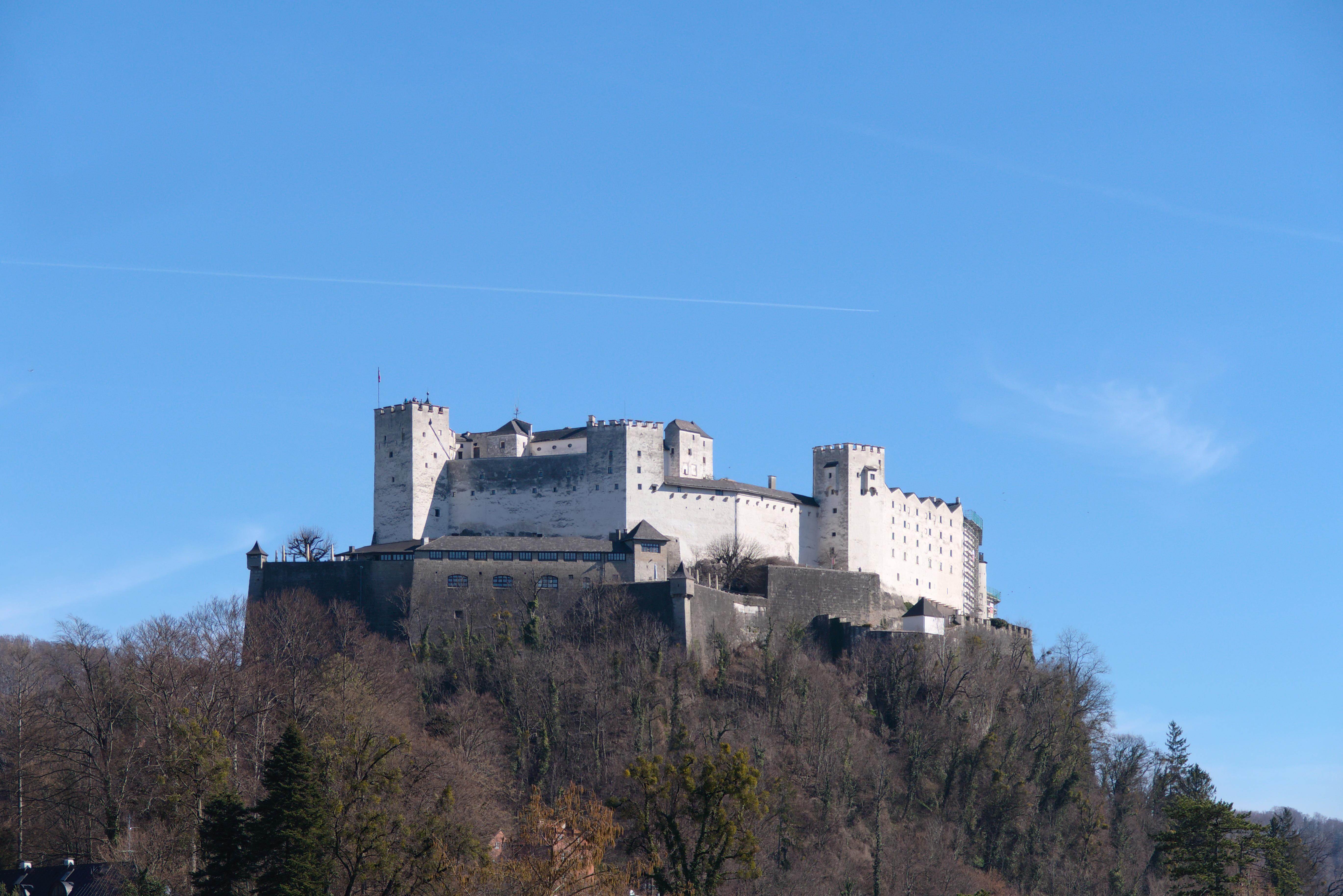 Fortress Hohensalzburg from southwest, seen from Leopoldskron, City of Salzburg, Austria.